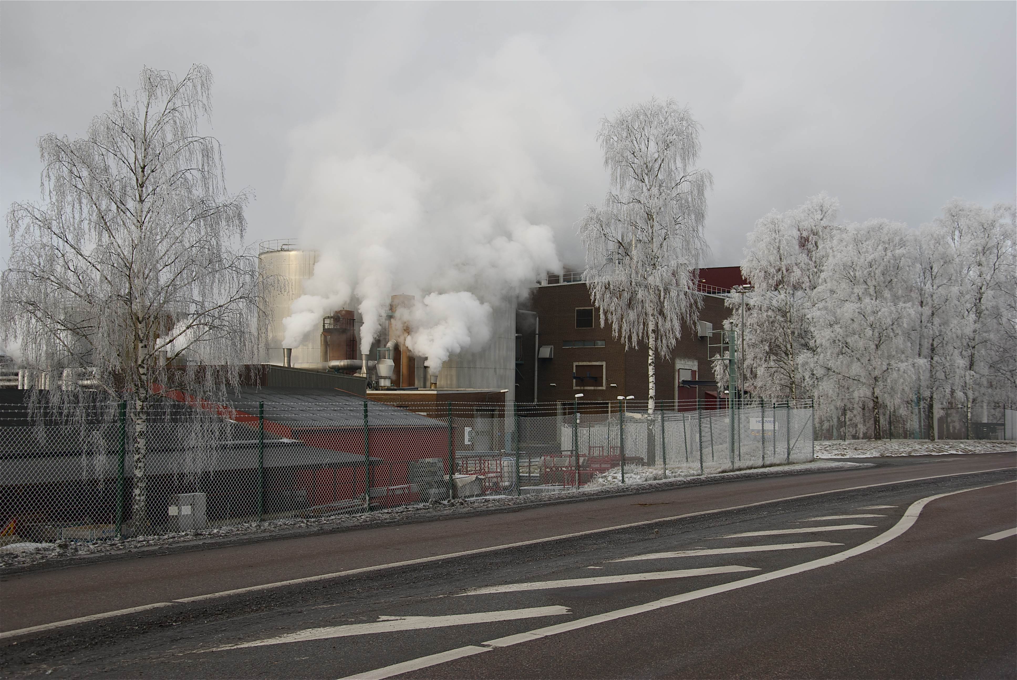 Hallsta Paper Mill